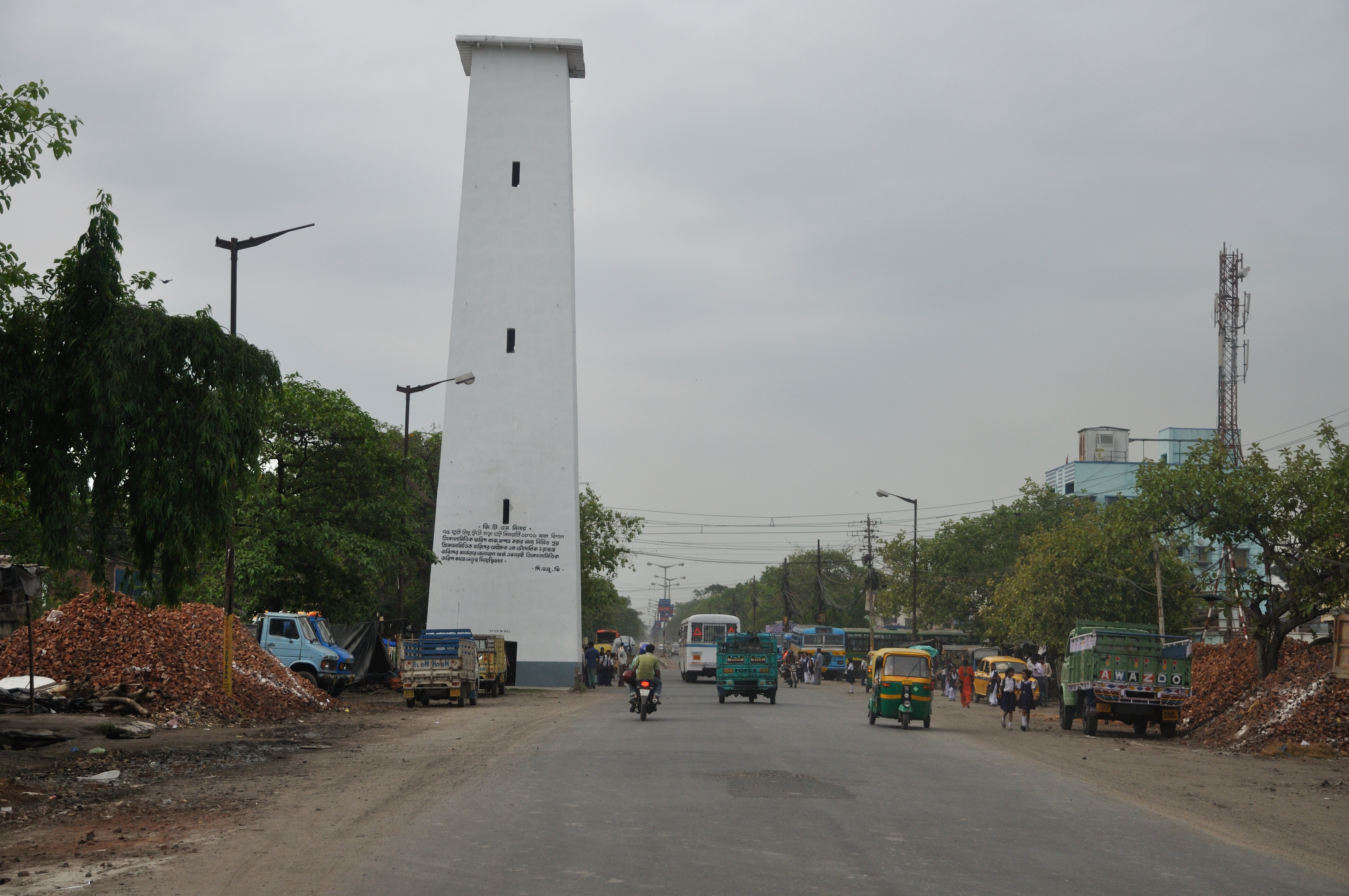 Photographed on the Barrackpore Trunk Road or B T Road. Translation from Bengali description: G T S Minar This 75 feet height large brick built minar has been erected on 1831 CE. Surveyor and geographer George Everest leaded the trigonometric survey. P W D (Public Works Department)